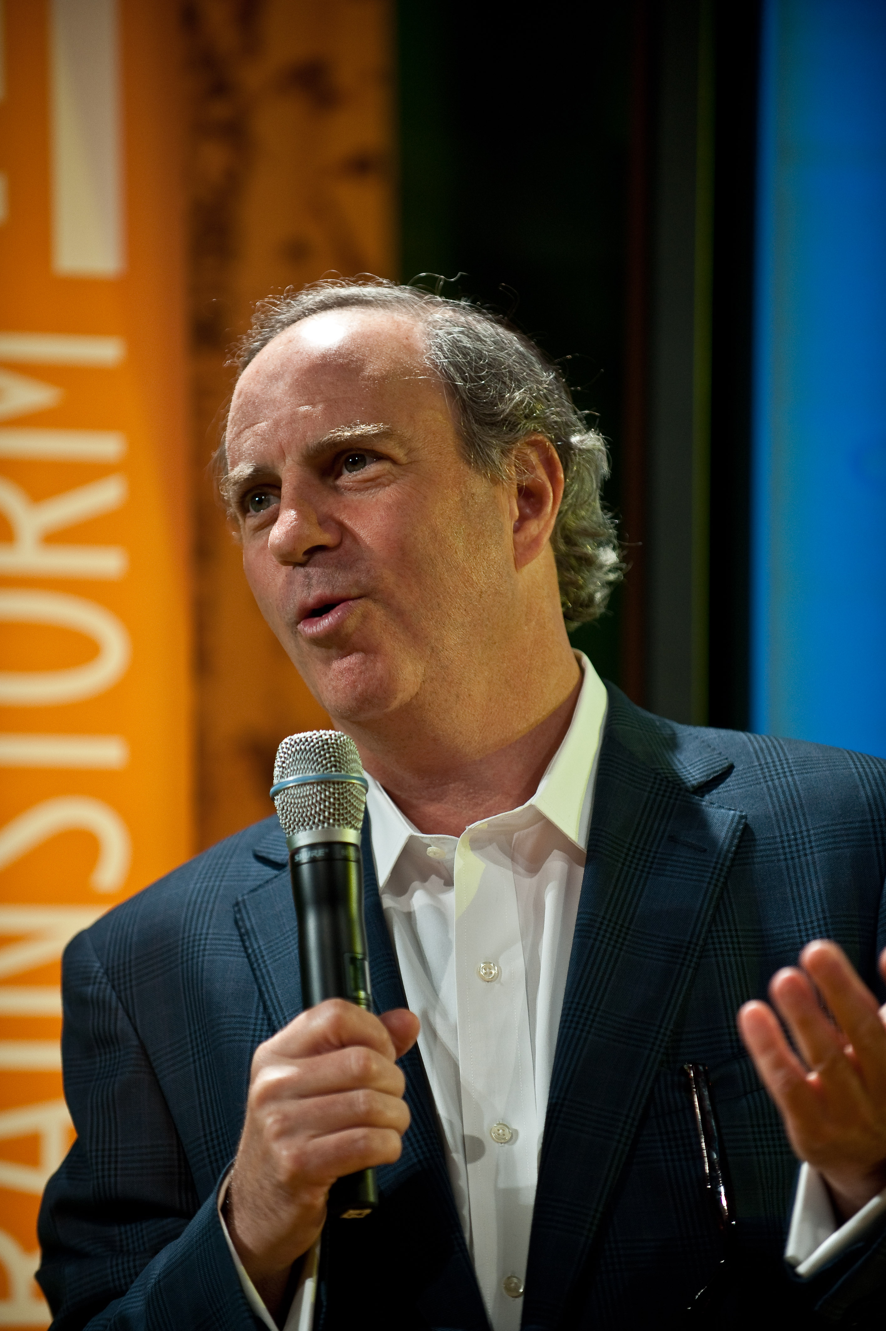 July 19th, 2011--Aspen, CO, USA Andy Serwer speaks at the Welcome and Opening at Fortune Brainstorm TECH at the Aspen Institute Campus. Photograph by Stuart Isett/Fortune Brainstorm TECH